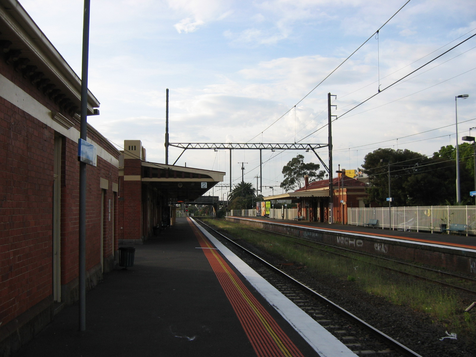 Oakleigh station, Melbourne, Victoria.